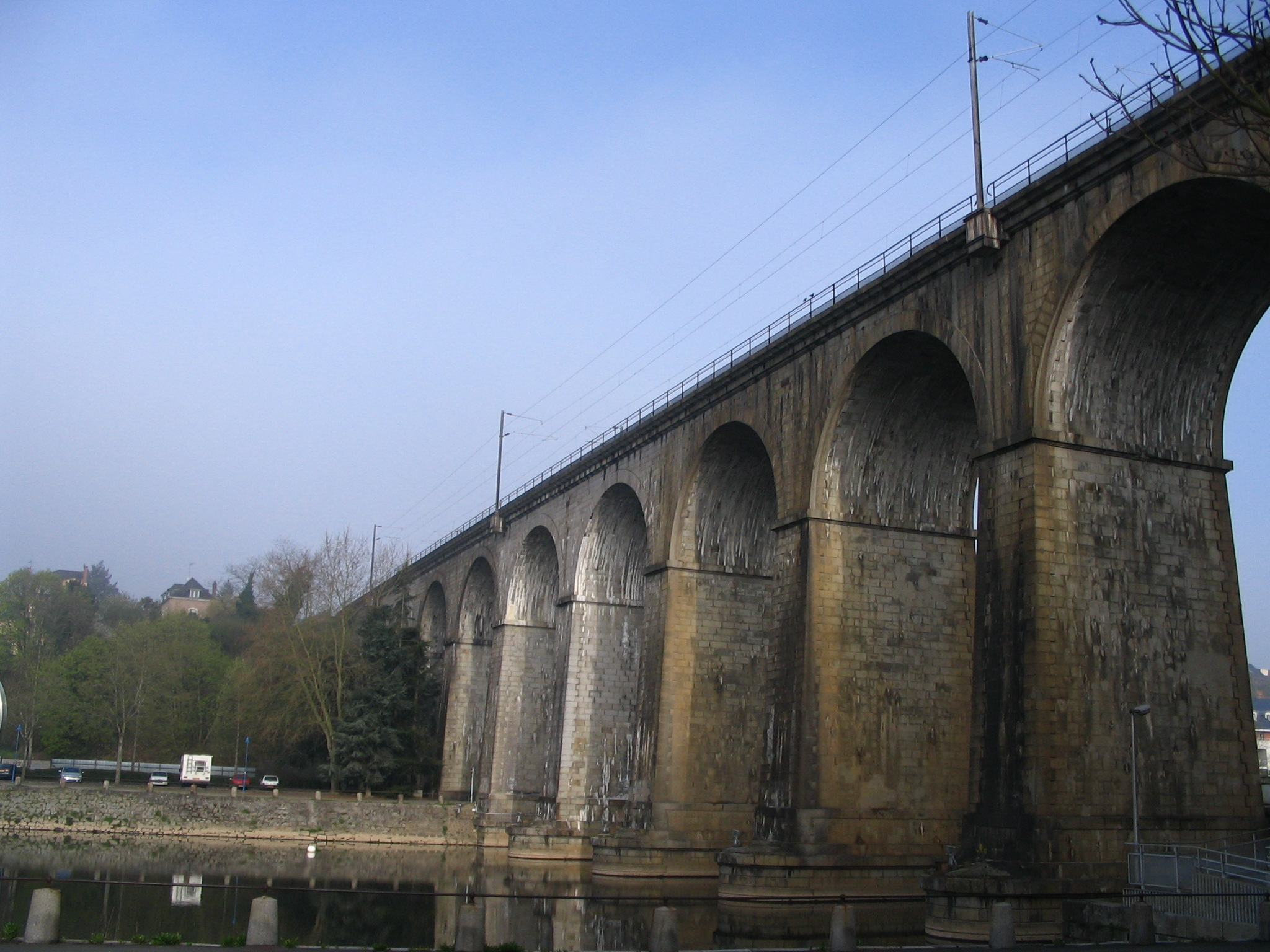 A railway bridge in Laval, Mayenne, France.